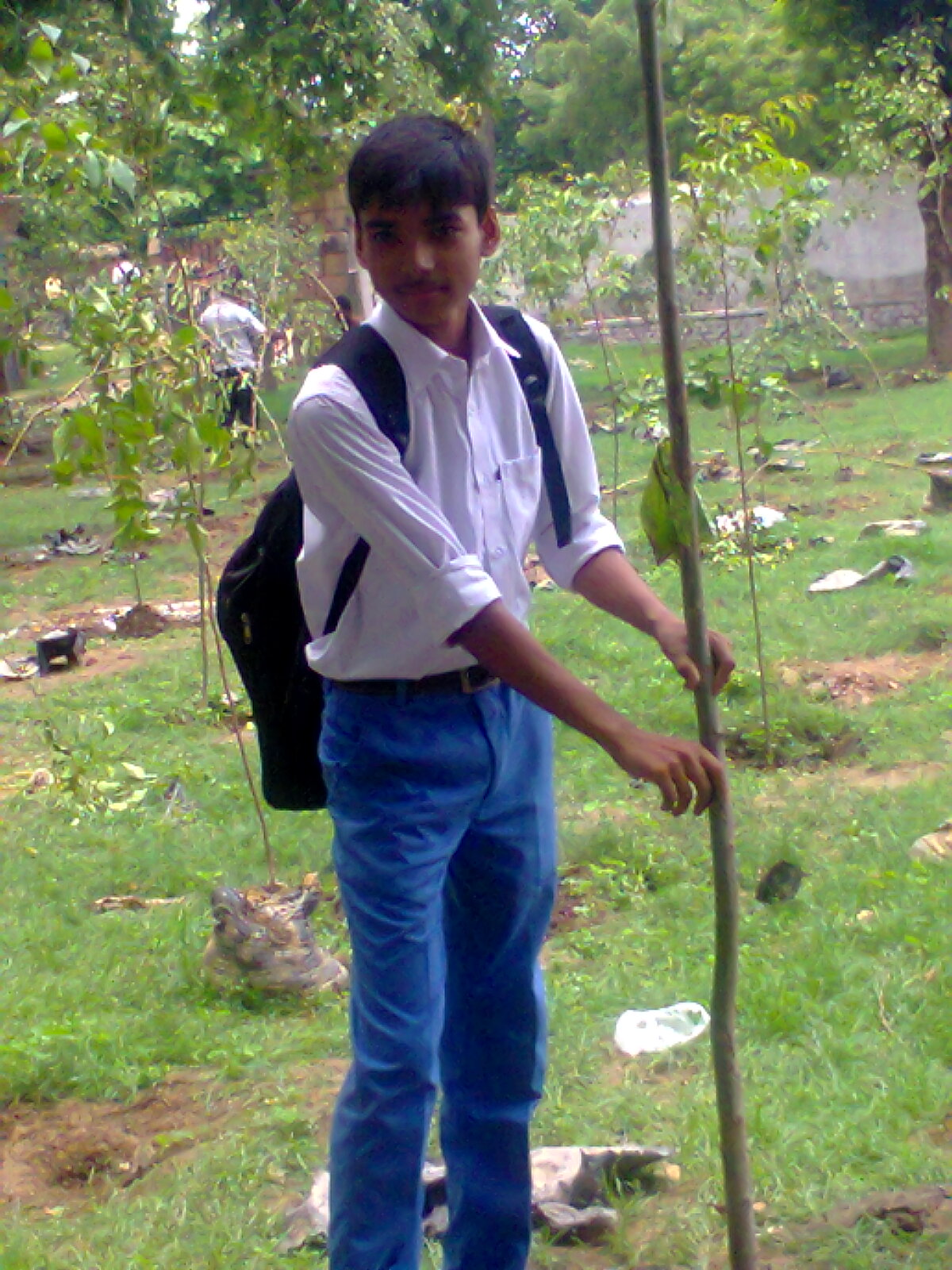 Contribution of a student in UP Goes Green Campaign